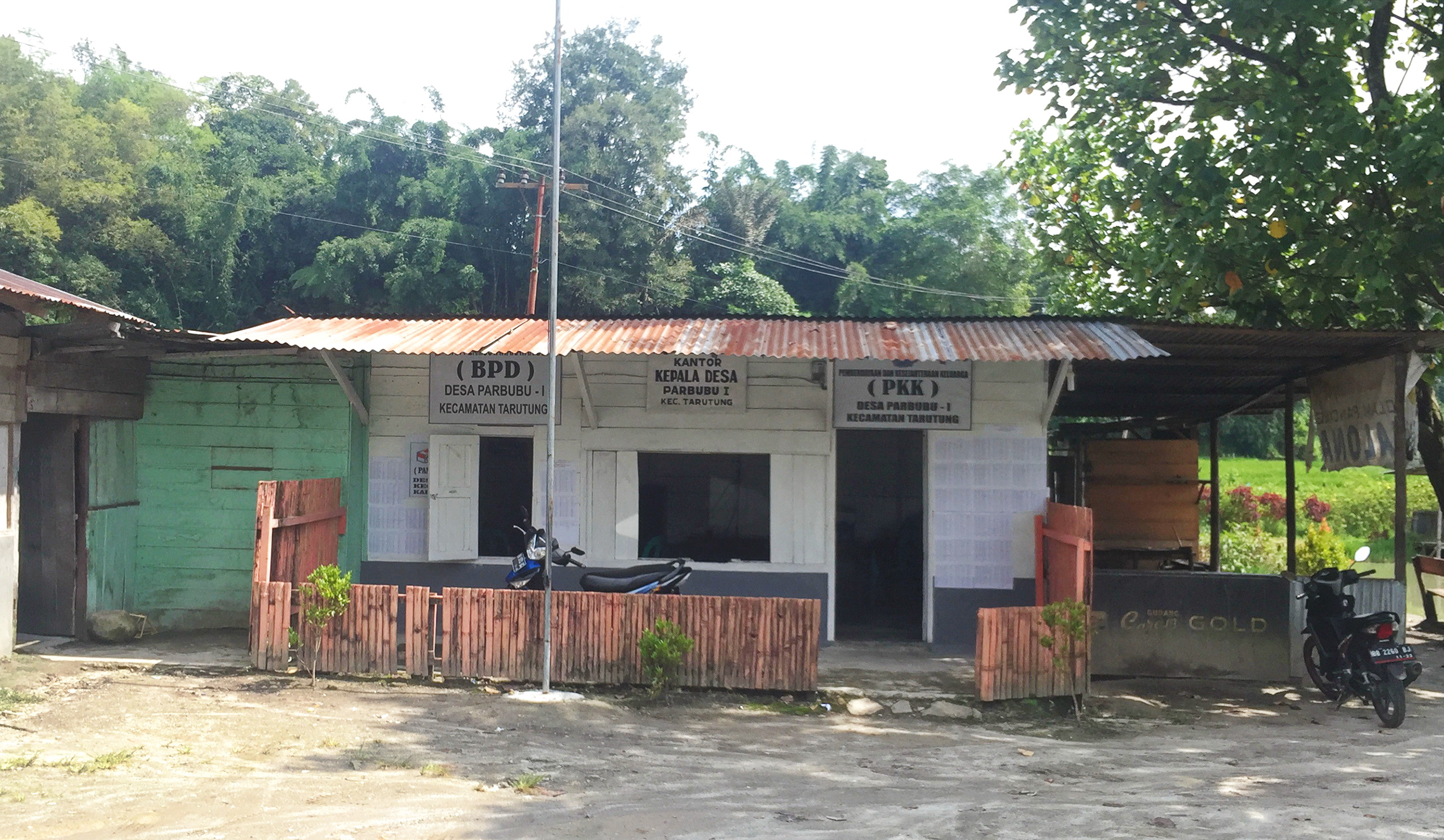 Office of Parbubu I, Tarutung, Tapanuli Utara